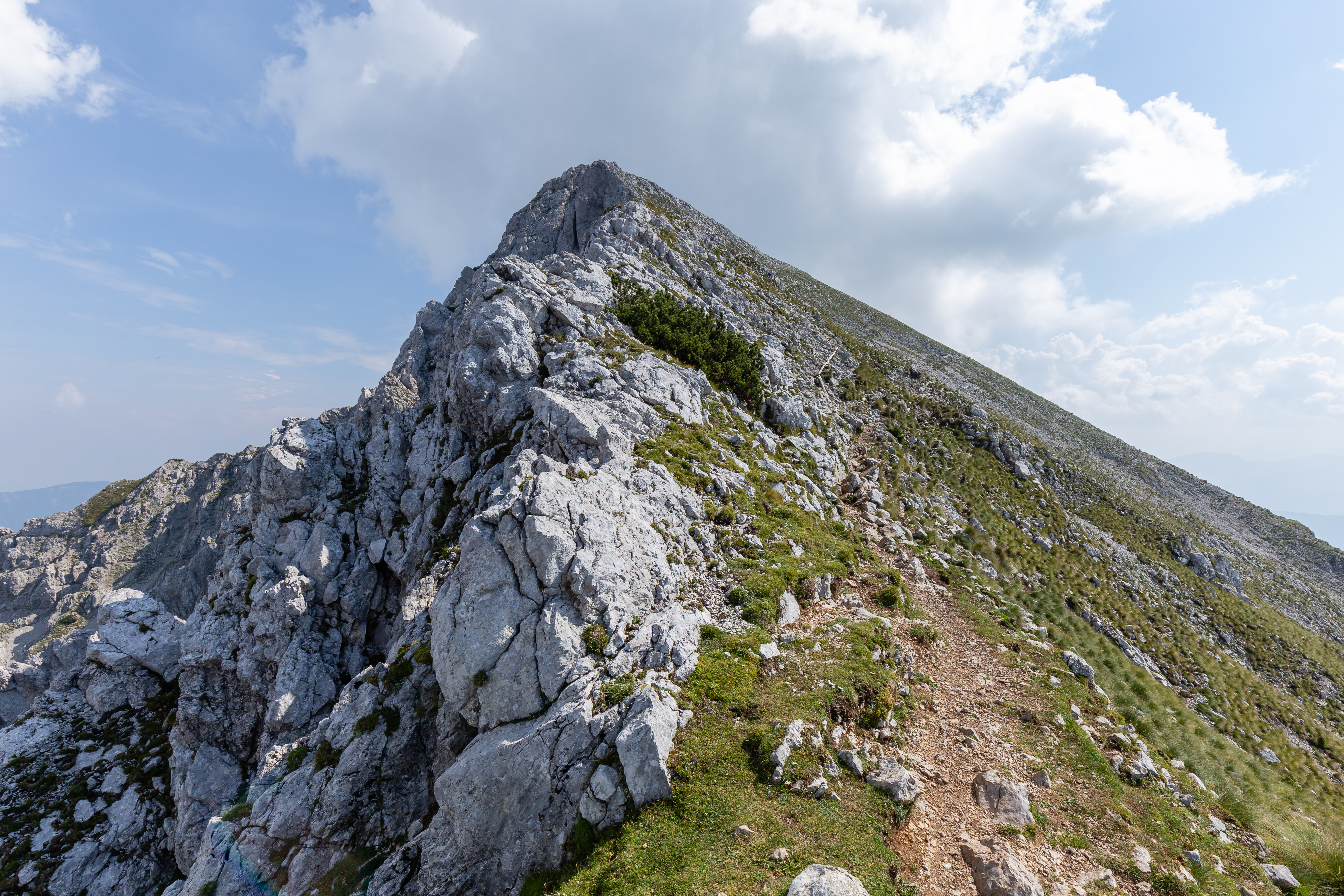 Ridge of Veliki Vrh, Karawanks, Slovenia